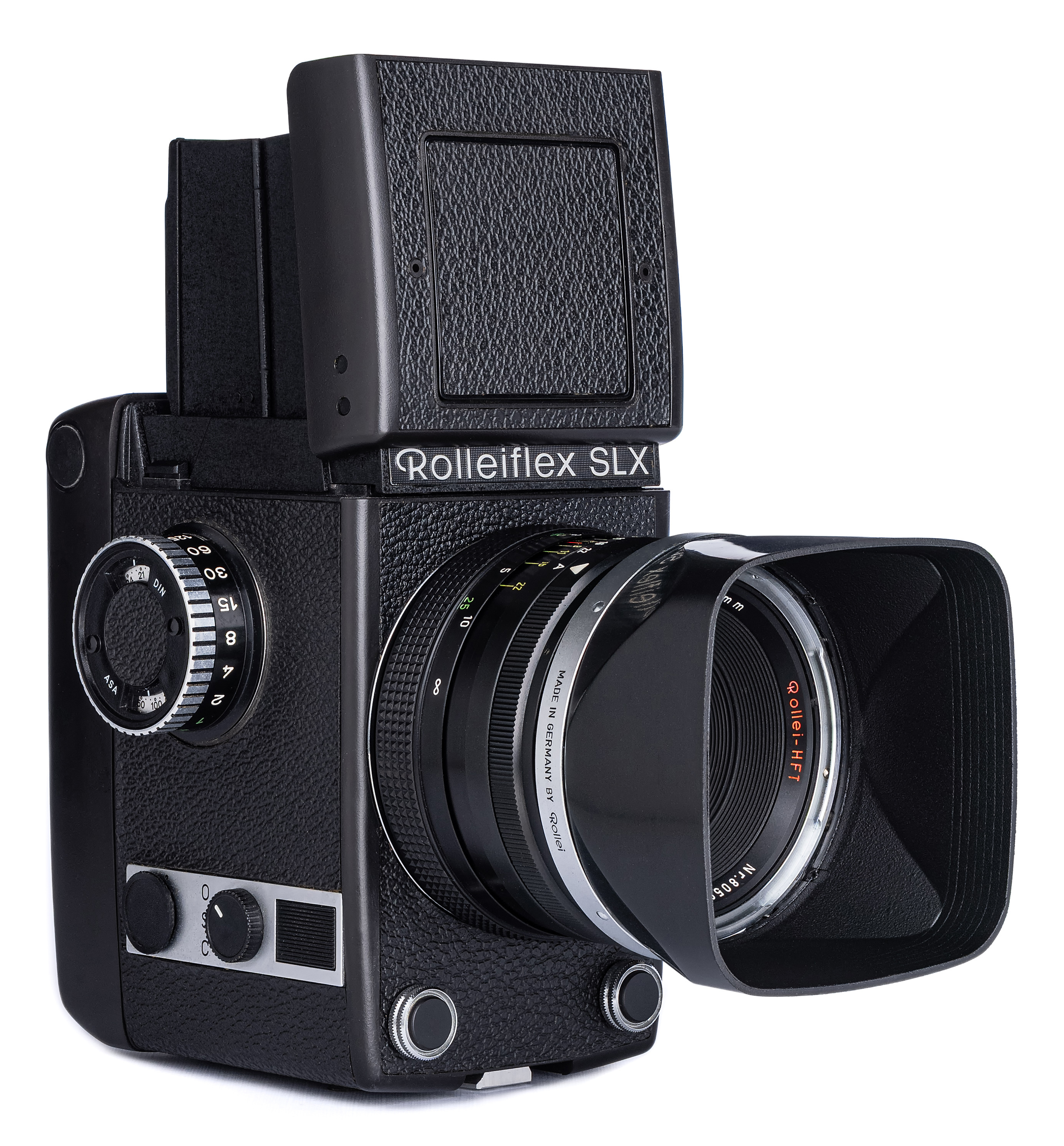 SLR medium format camera Rollei Rolleiflex SLX with lens Rollei-HFT Planar 80 mm / 1:2.8 and Folding Waist Level opened. Marketing date: 1976.